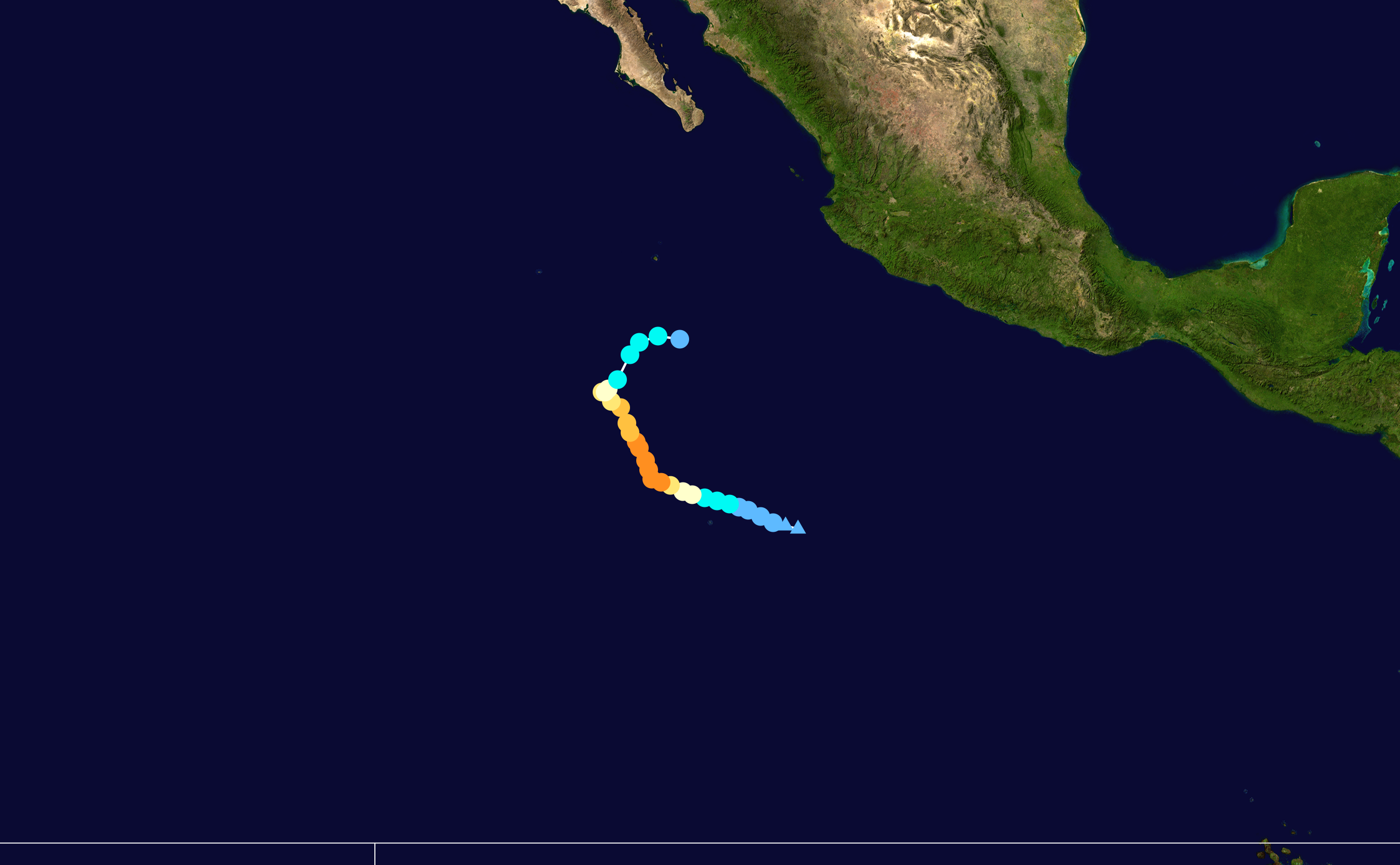 Track map of Hurricane Amanda of the 2014 Pacific hurricane season. The points show the location of the storm at 6-hour intervals. The colour represents the storm's maximum sustained wind speeds as classified in the Saffir–Simpson scale (see below), and the shape of the data points represent the nature of the storm, according to the legend below. Saffir–Simpson scale Tropical depression≤38 mph≤62 km/h Category 3111–129 mph178–208 km/h Tropical storm39–73 mph63–118 km/h Category 4130–156 mph209–251 km/h Category 174–95 mph119–153 km/h Category 5≥157 mph≥252 km/h Category 296–110 mph154–177 km/h Unknown Storm type Tropical cyclone Subtropical cyclone Extratropical cyclone / Remnant low / Tropical disturbance / Monsoon depression